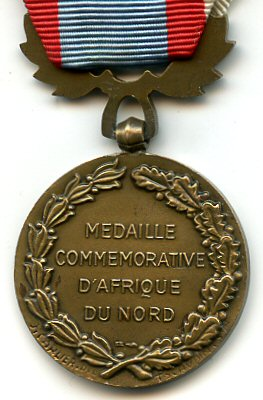 North Africa Security and Order Operations Commemorative Medal (France), 1956-1958 variant (reverse)